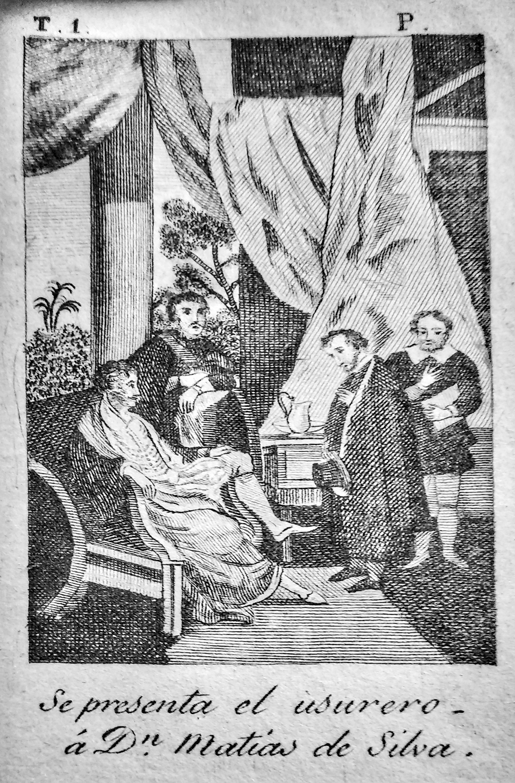 "The usurer goes to Don Matías de Silva". Aventuras de Gil Blas de Santillana. Volume Five. Printing De Bueno. Madrid, 1830.